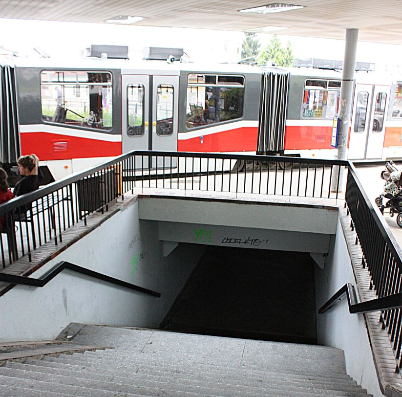 Gymnázium Brno-Řečkovice, underpass